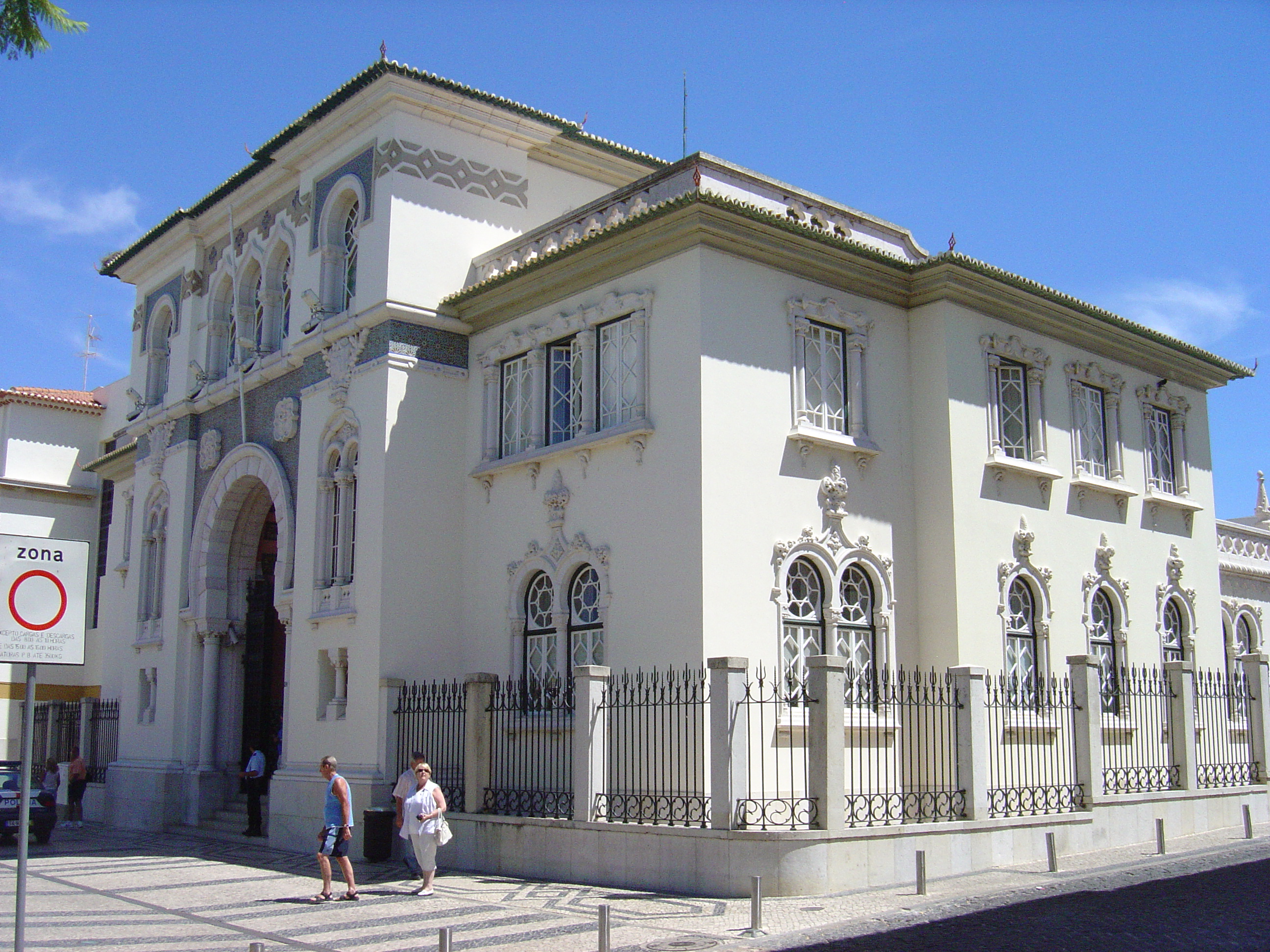 Faro, Portugal